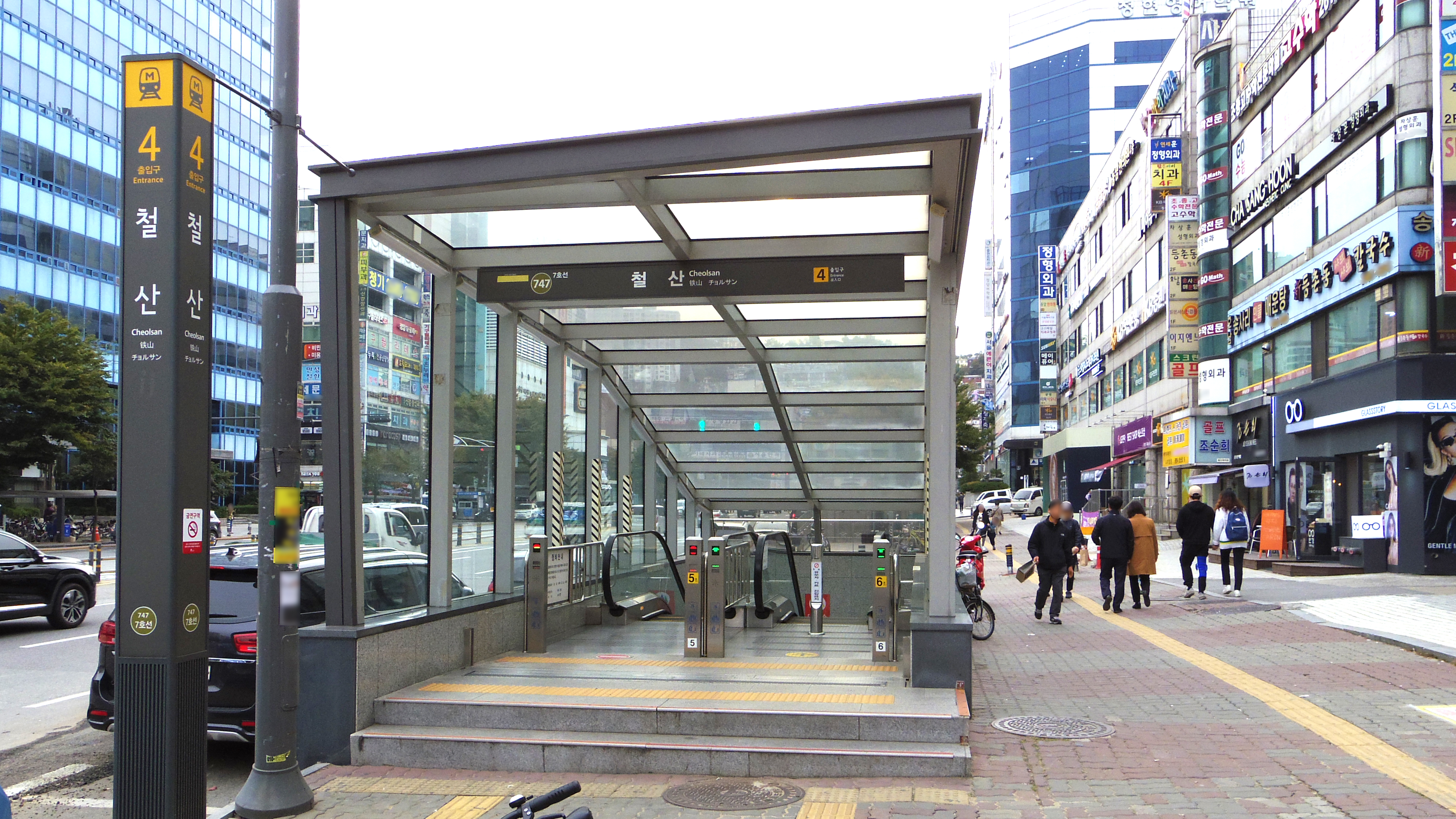 The no.4 entrance to Cheolsan Station on the Seoul Subway Line 7 in Gwangmyeong city, Gyeonggi-do(province), Republic of Korea(South Korea)